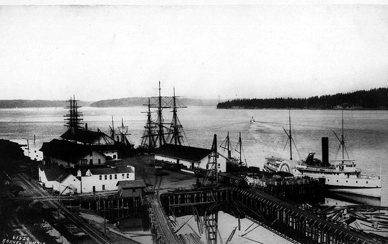 Sidewheel steamship Alaskan at the Northern Pacific Railway dock, at Tacoma, Washington Terr., circa 1880. This is on the waterfront a bit northwest of downtown Tacoma.